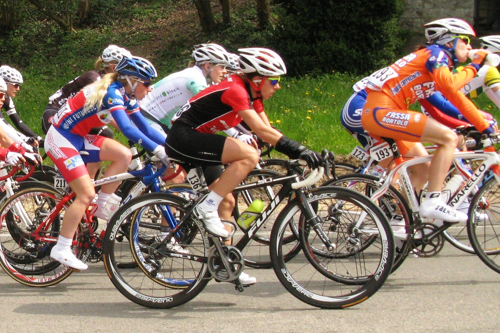 Trixi Worrack in the Côte de Ben-Ahin near Huy in the 2010 Ladies Flèche Wallonne (N° 136) on the right Valentina Carretta (N° 193) on the left Christel Ferrier-Bruneau (N° 211)